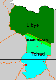 Map of the Chadian Civil War (1979-1982) and the Chadian–Libyan conflict showing the Aouzou Strip between Libya and Chad, the Red Line and the 15th parallel north in Chad.